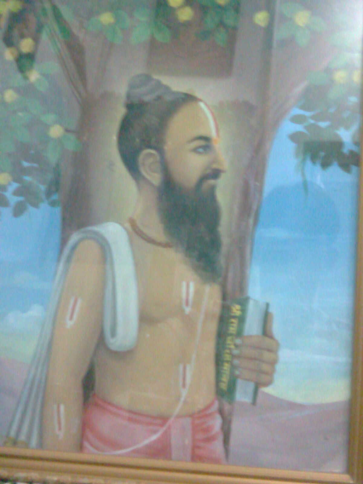 Goswami shri tulsi das jiGOSWAMI SHR TILSI DAS JI GOSWAMI SHRI TULSI DAS JI was the author of the shri ramchrit manas he wrote ramchrit manas in 1631 according to hindu calendar “vikram samvat” goswami ji also wrote 12 books “Vinay patrika”,” Kavitavali”, “Dohawali”, “Geetawali” “Janki-mangal”,” Paarvati-mangal”, “Ramagaya prashana”, “varvay-ramayan”, “shri Krishna chritawali”. Shri Goswami tulsi das ji wote ramchrit manas in the 7 chapters about the whole life lord ram The chapter o the ramchrit manas called “sopaan” or “kand” Balkand.ayodhya.aranya,kiskendha,sundar,lanka,uttar etc Shri tulsi das ji use the language in Ramayana usally hindi and awahi and sanskrit